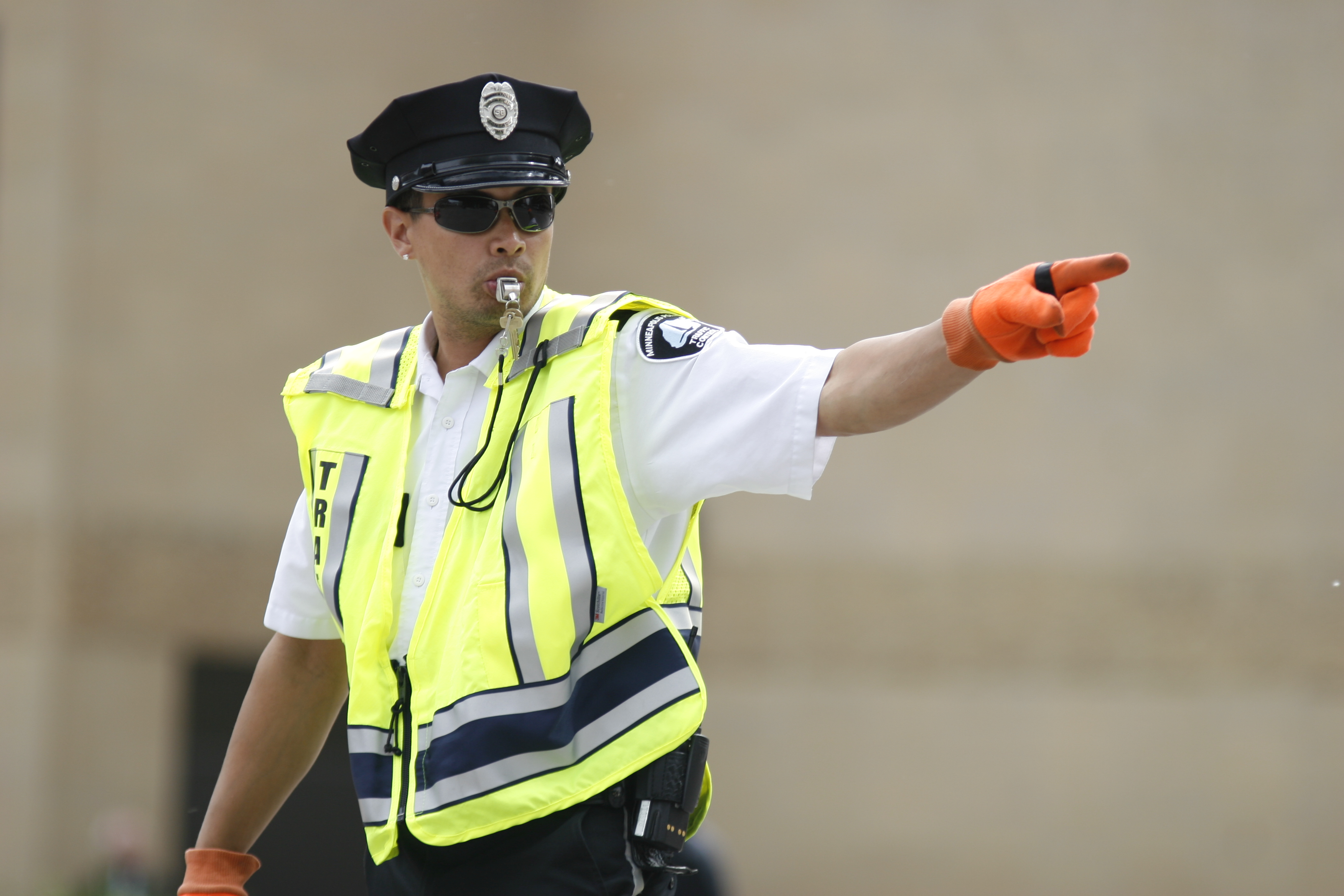 A Minneapolis Police Department Traffic Officer directing traffic in downtown Minneapolis.